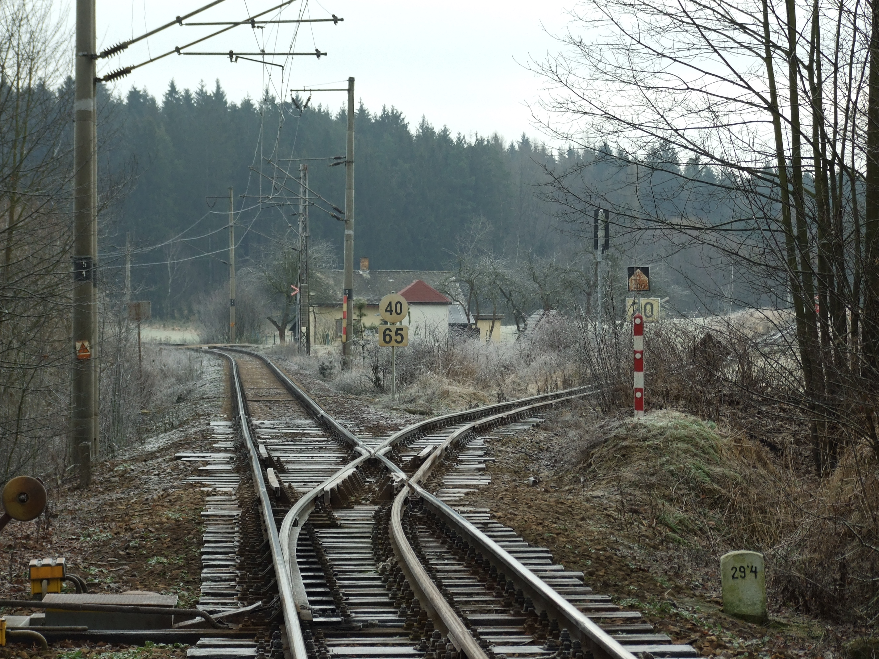 A rail track of JHMD (right to Nová Bystřice) ČD (left) near Dolní Skrýchov, one of the city parts of Jindřichův Hradec, South Bohemian Region, CZhelp